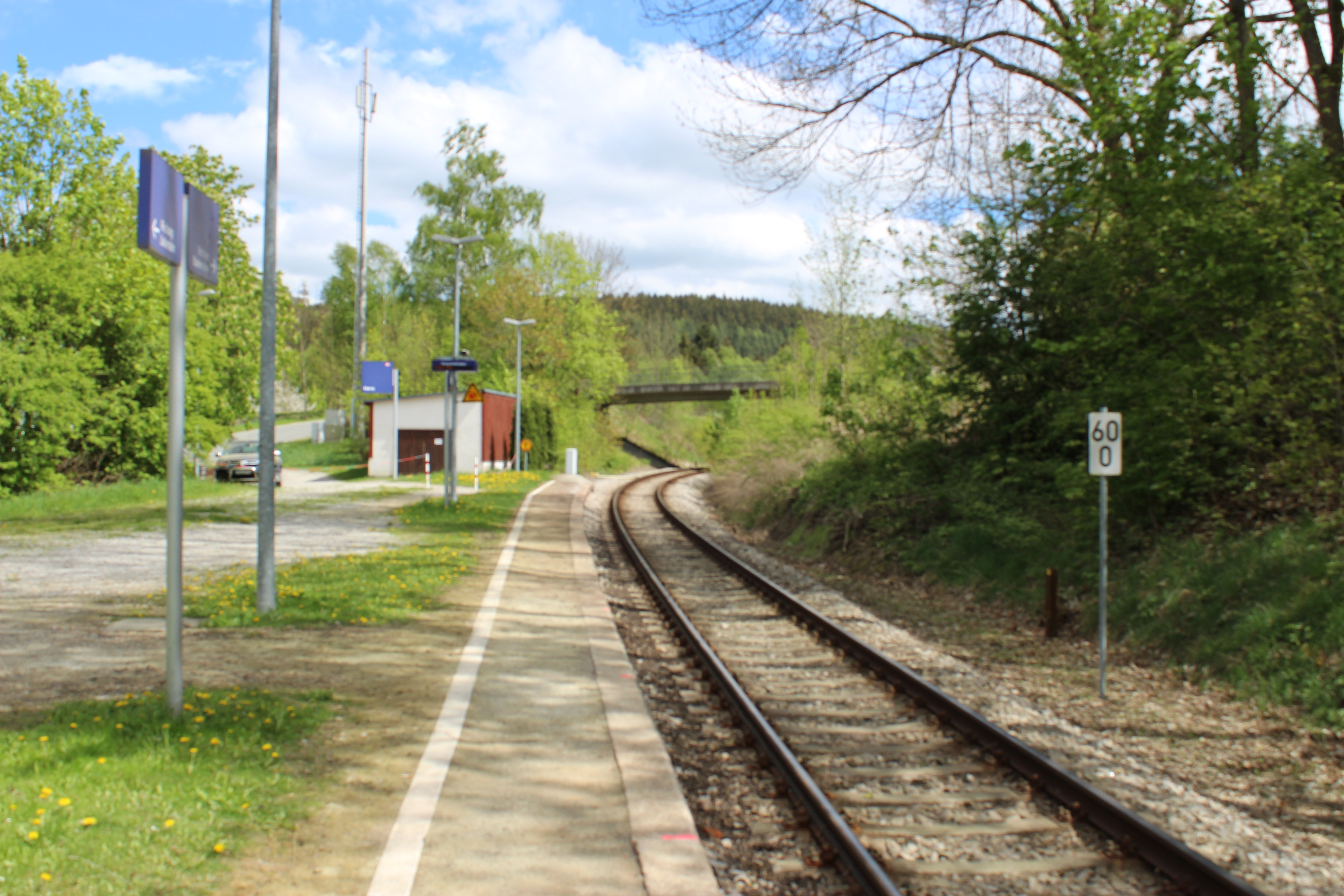 train station Harra